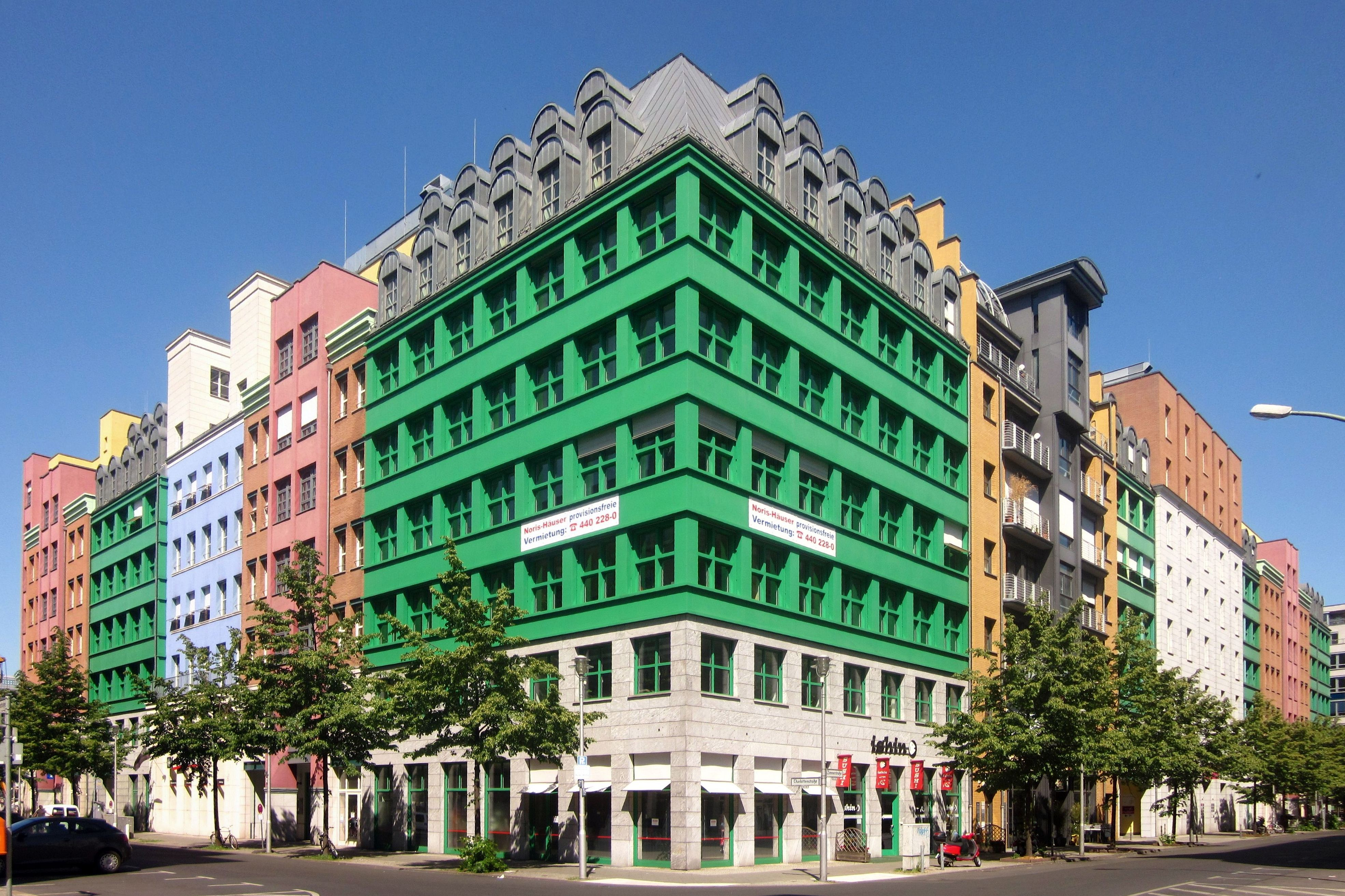 The block Schützenstraße between Schützenstraße, Charlottenstraße, Zimmerstraße, and Markgrafenstraße in Berlin-Mitte, here the facades of the buildings Zimmerstraße No. 68 and 68 and Charlottenstraße No. 16, 17, and 18 (on the left). The complex of office and residential buildings occupies almost the whole block and was built from 1994 to 1996 to a design by the architect Aldo Rossi on an empty space at the former death strip of the Berlin Wall.